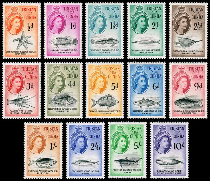 Tristan da Cunha 1960 marine life definitive stamp set.